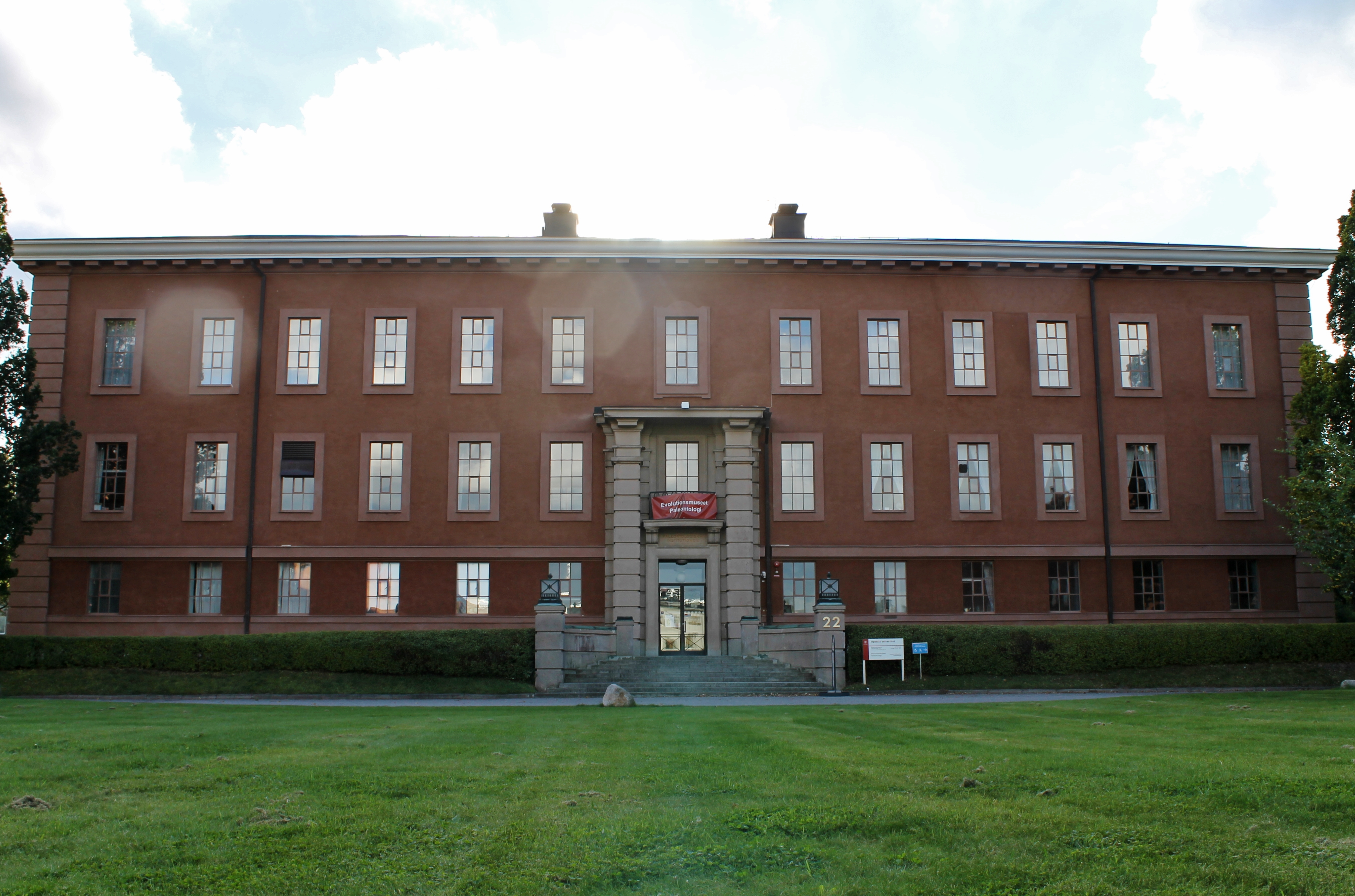 The Paleontological section of the Museum of Evolution of Uppsala University. The building was constructed in 1931.